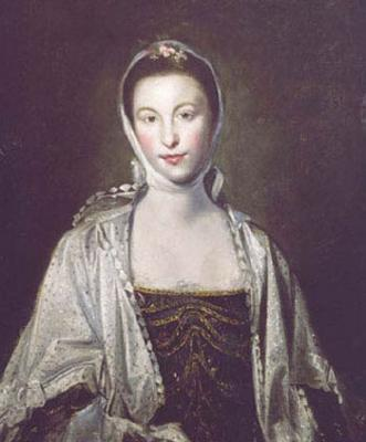 Elizabeth Rawdon (1731 - 1808)